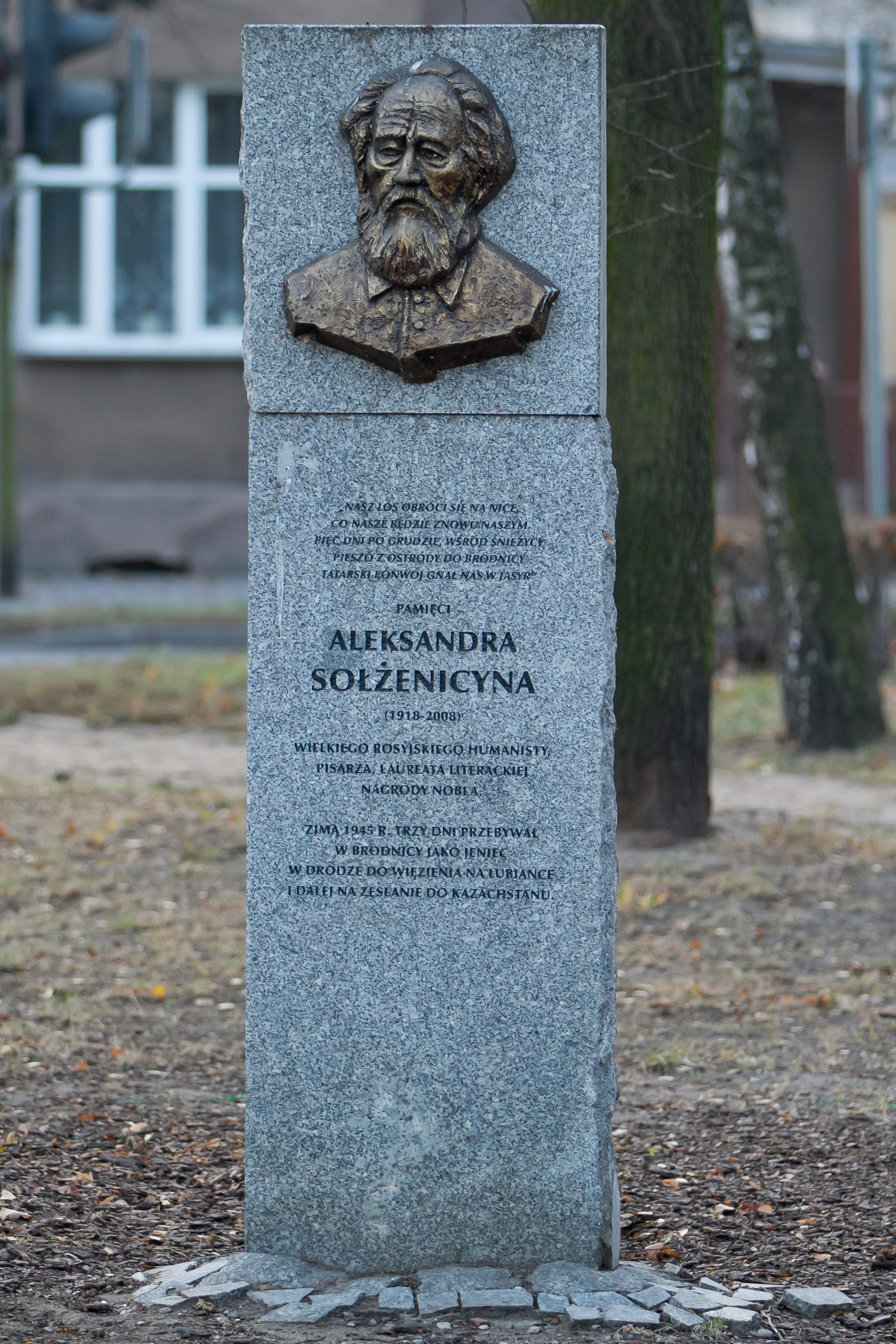 Brodnica, plaque in a city park dedicated to Alexander Solzhenitsyn